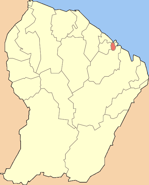 Made map myself.